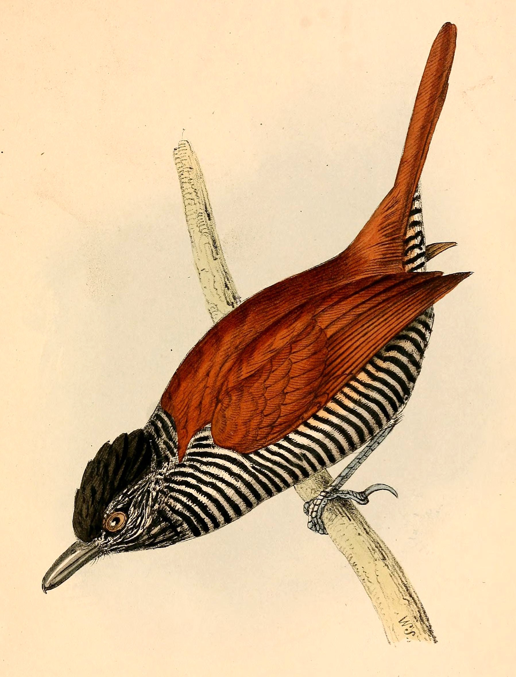 « Thamnophilus badius » = Thamnophilus palliatus palliatus (Subspecies of Chestnut-backed Antshrike) - male